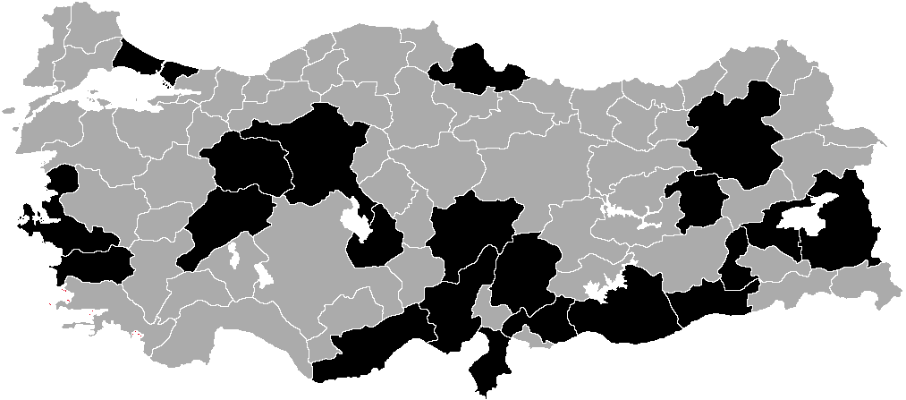 Map showing electricity cuts during the counting process of the 2014 Turkish local elections